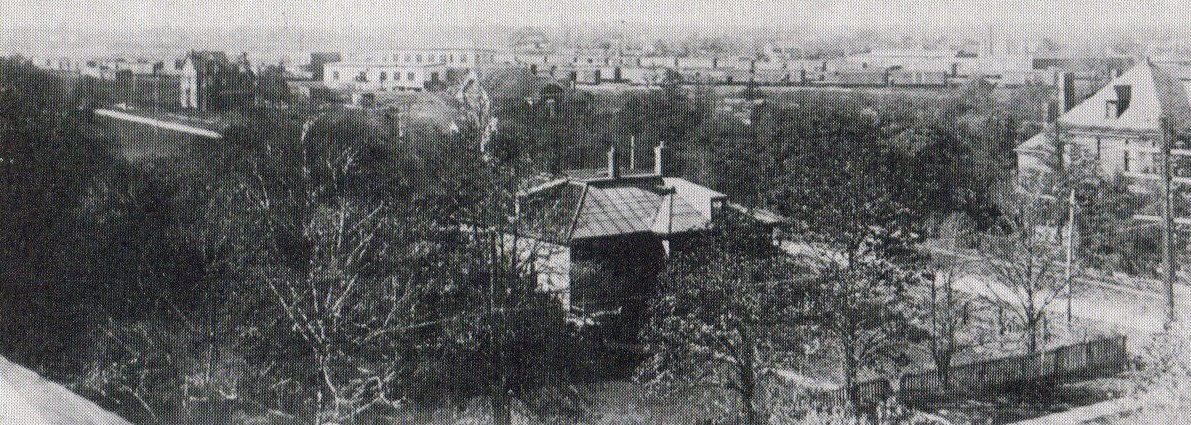 Photo of the Mimico Train Yards looking along Drummond St from Royal York Rd, Historic 'Hawarden' Stock family home in foreground (south-west corner), Mimico